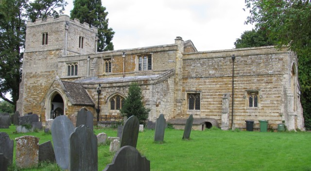 All Saint's parish church, Church Walk, Lubenham, Leicestershire, seen from the south